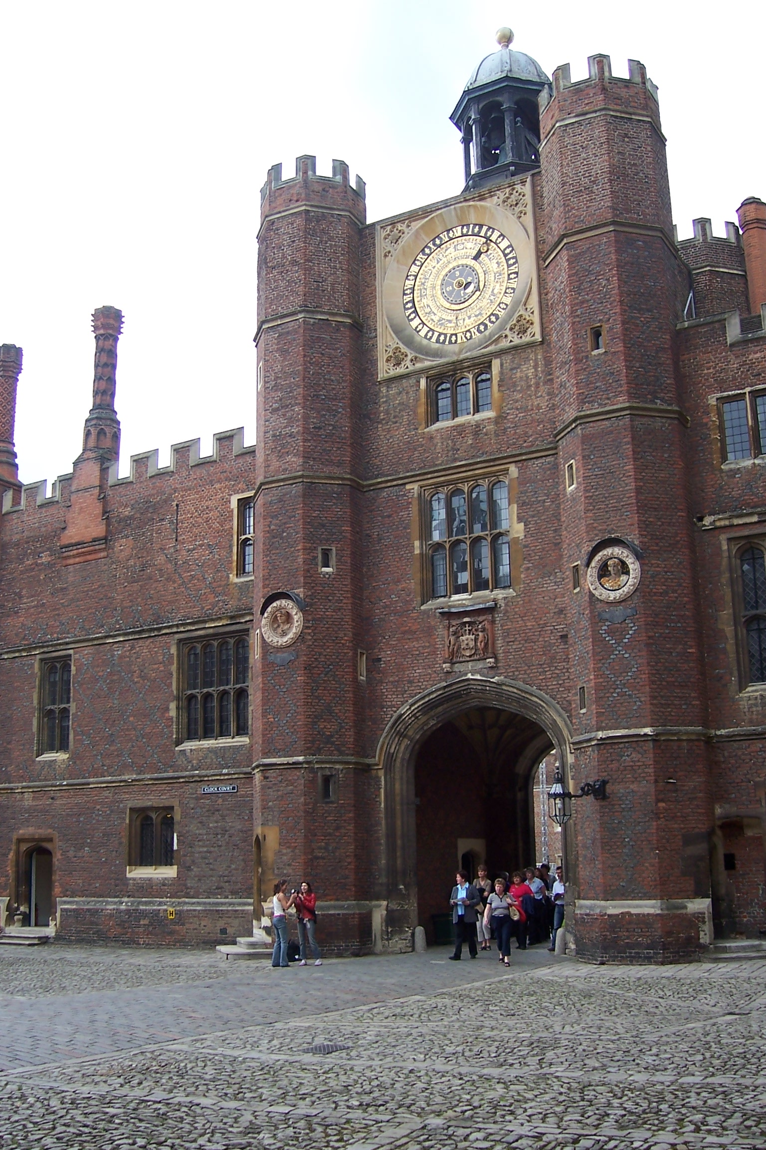 Courtyard at Hampton Court Palace, United Kingdom